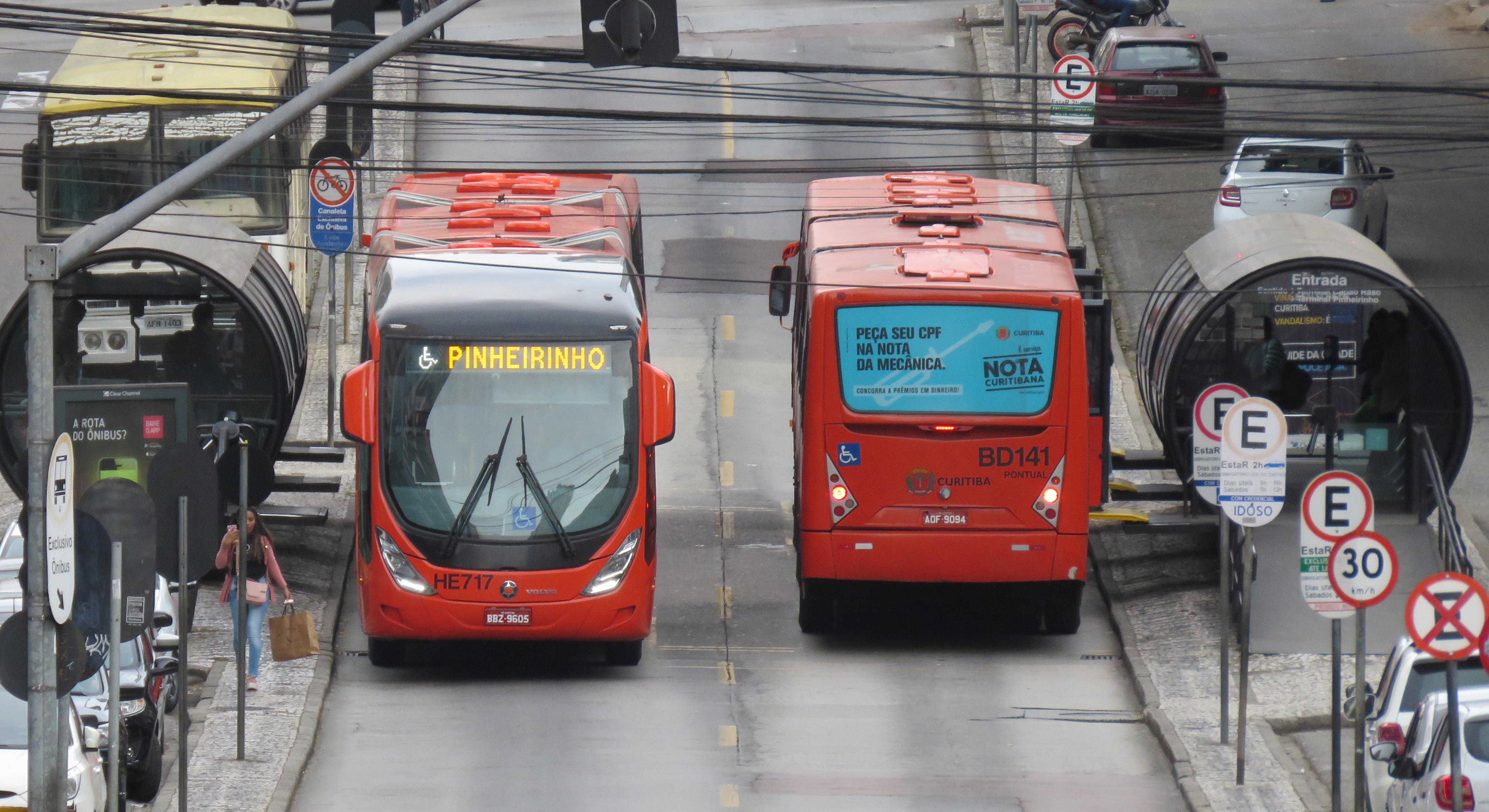 Example of Curitiba's RIT in Praça do Japão, a famous park in Curitiba